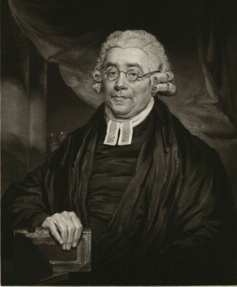 Portrait of Thomas Wilson (1747–1813), English cleric and master of Clitheroe grammar school.